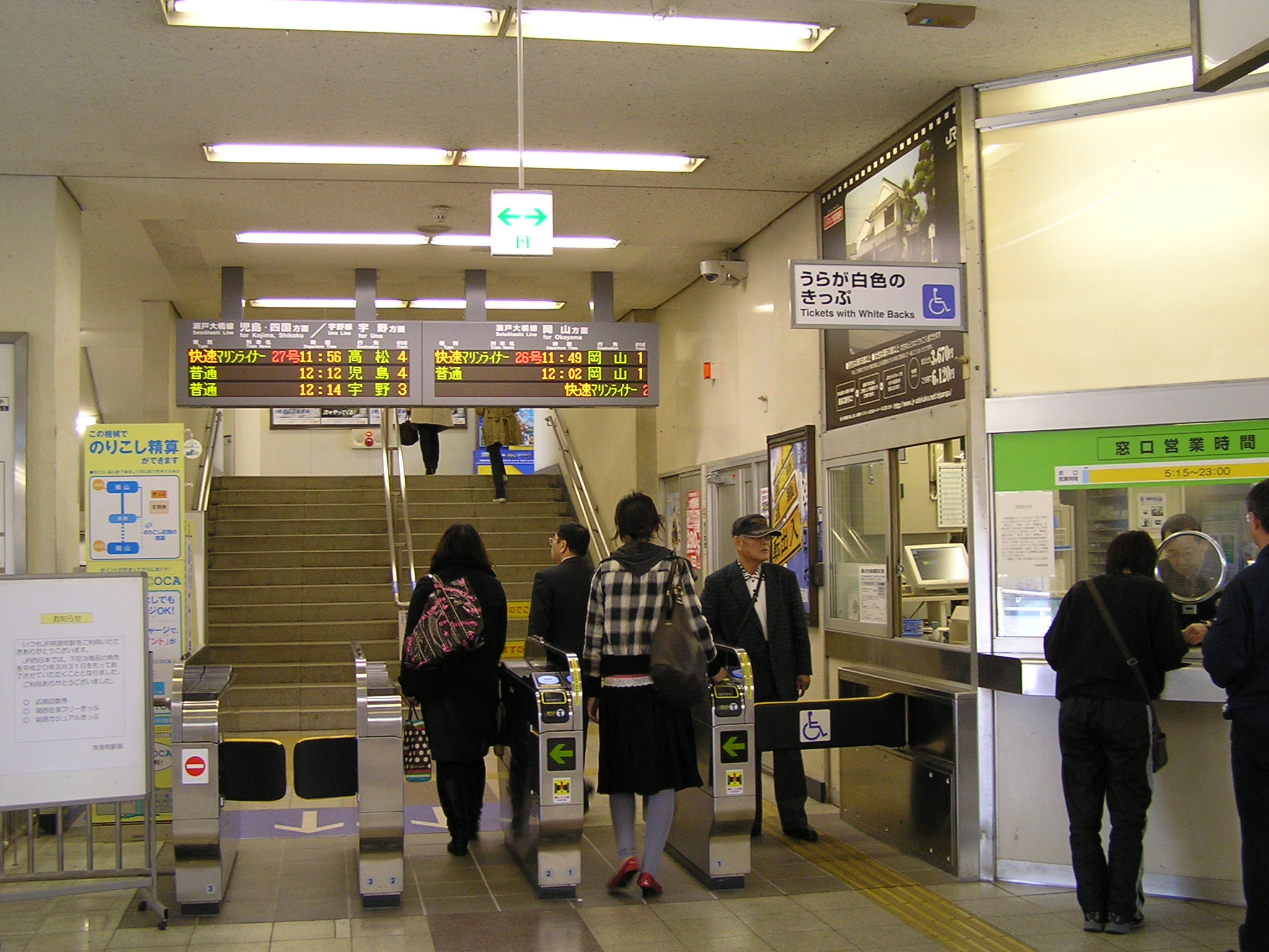 West Japan Railway Company Uno Line, Honshi Bisan Line, Chayamachi Station ticket gate